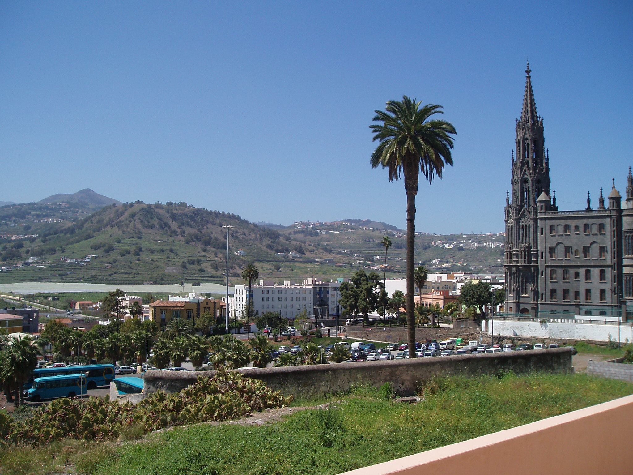 Partial view of Arucas, Gran Canaria (Canary Islands, Spain)